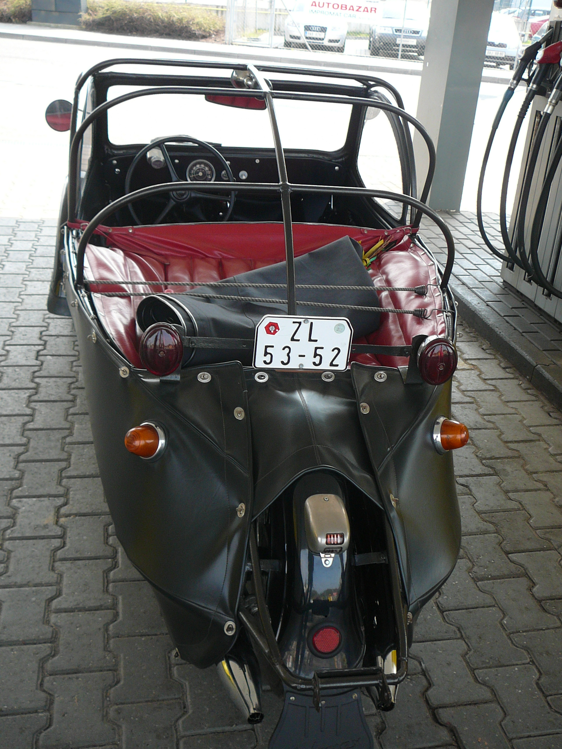 Black Velorex on the filling station in Želechovice nad Dřevnicí